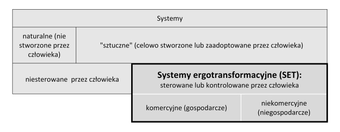 Table 1. Position of ETS-systems in the classification of systems